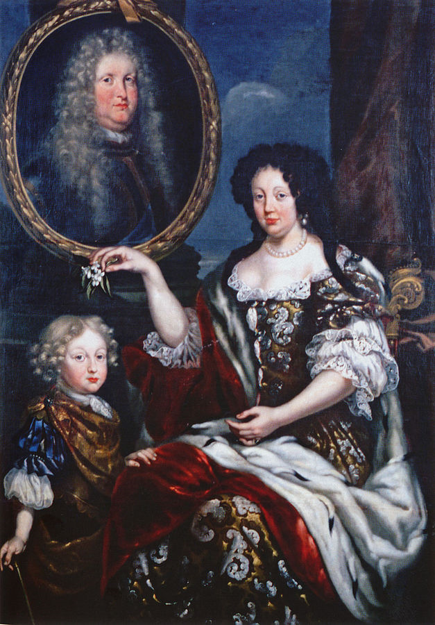 Portrait of Augusta Marie of Holstein-Gottorp (1649-1728) and her son Charles William of Baden (1679-1738)